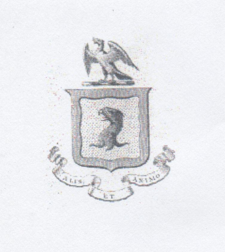 Registered coat of arms of the Monro of Fyrish family